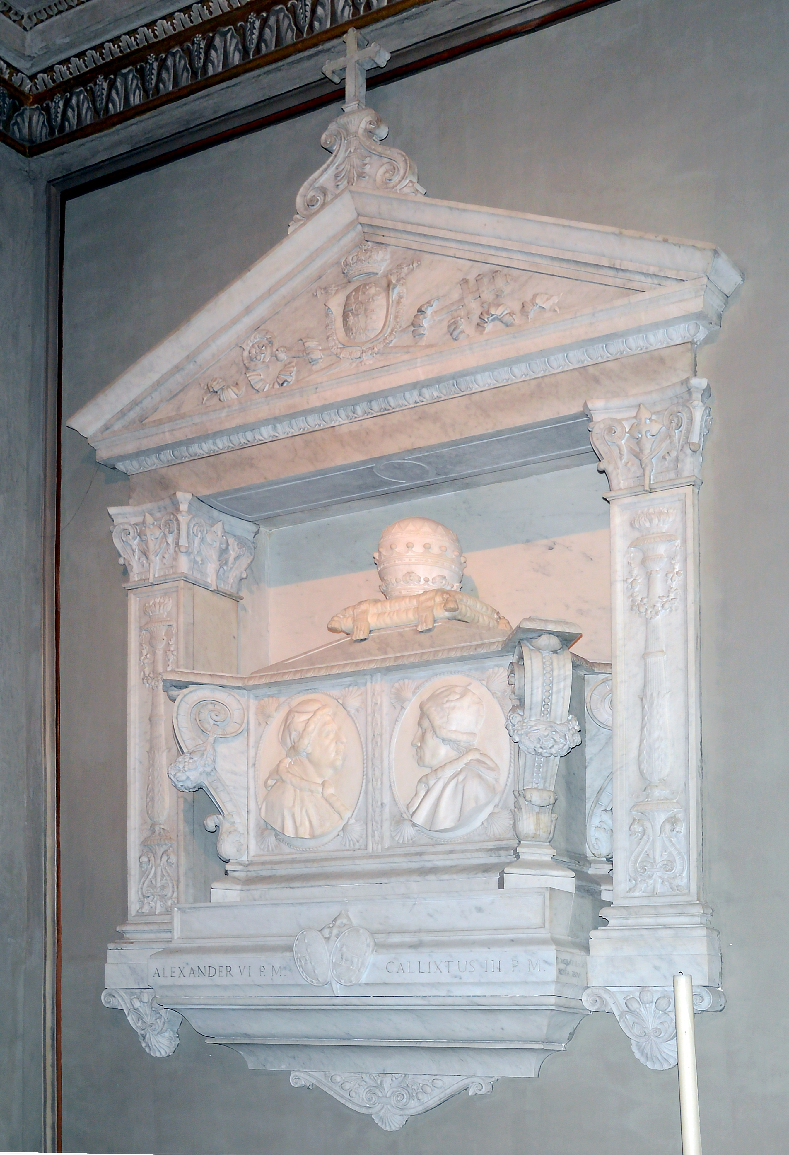 Tomb of Popes Borja ( Callisto III and Alessandro VI)